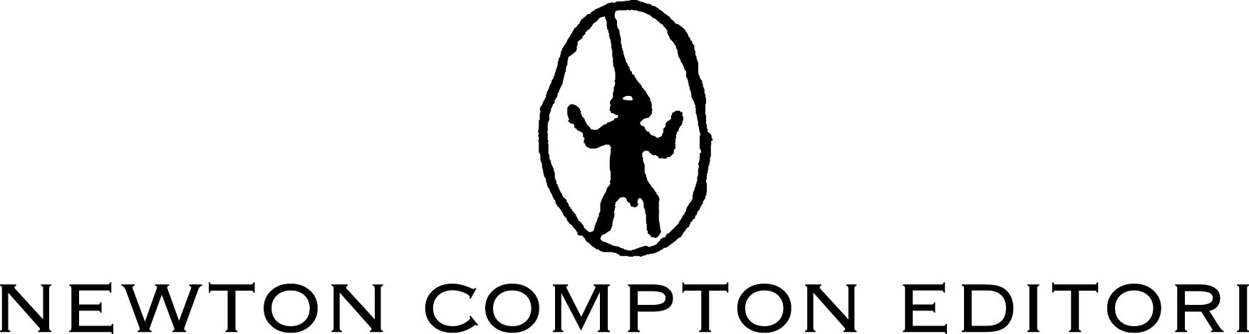 Newton Compton Editori's Logo